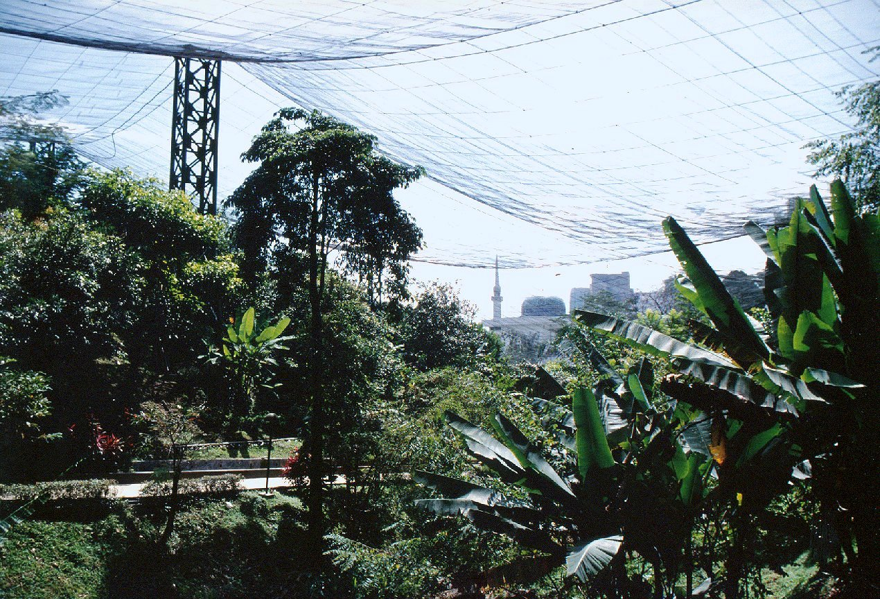 Net over Kuala-Lumpur Bird Park